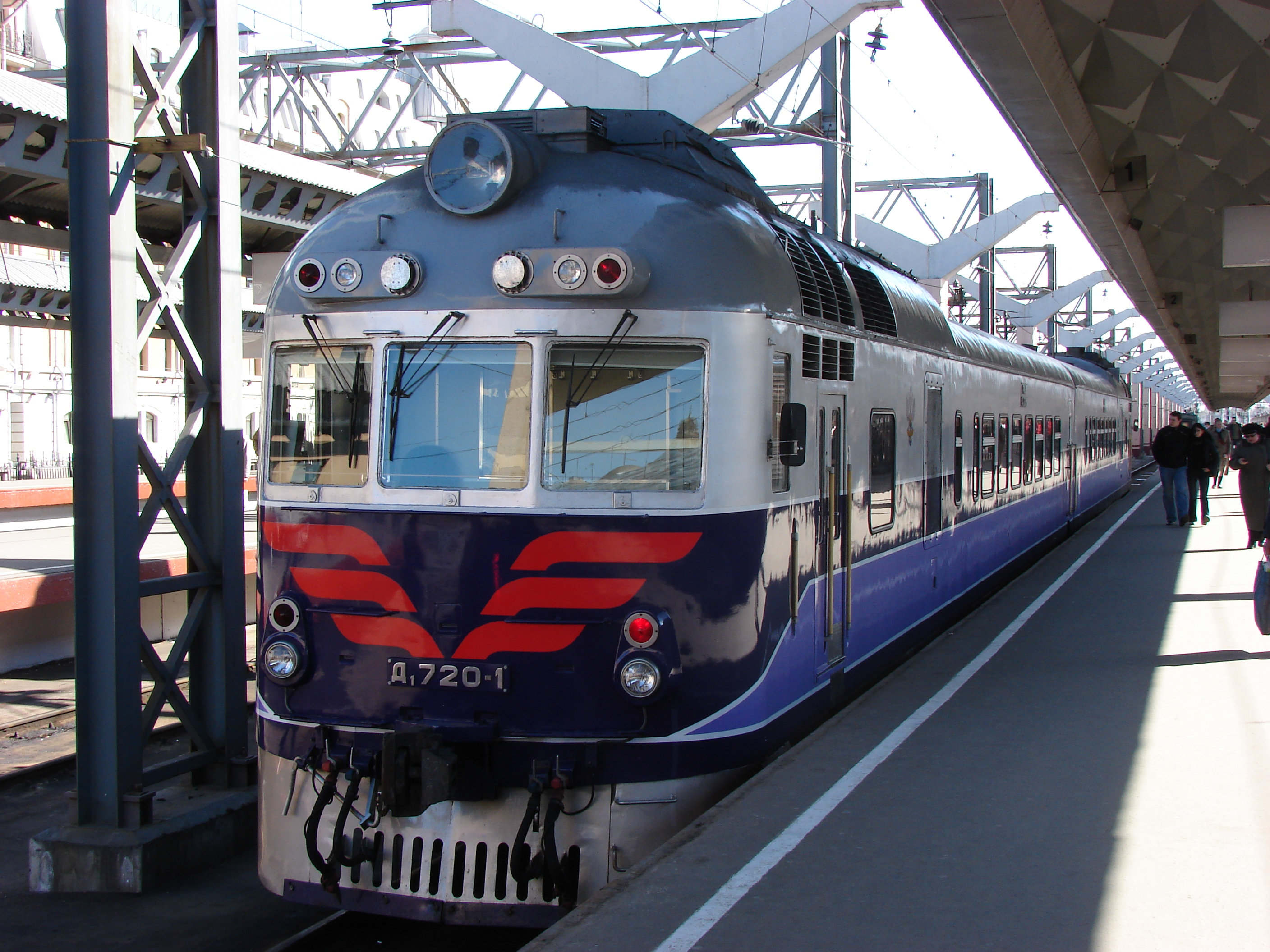 Diesel-multiple unit train D1 produced in Hungary for USSR